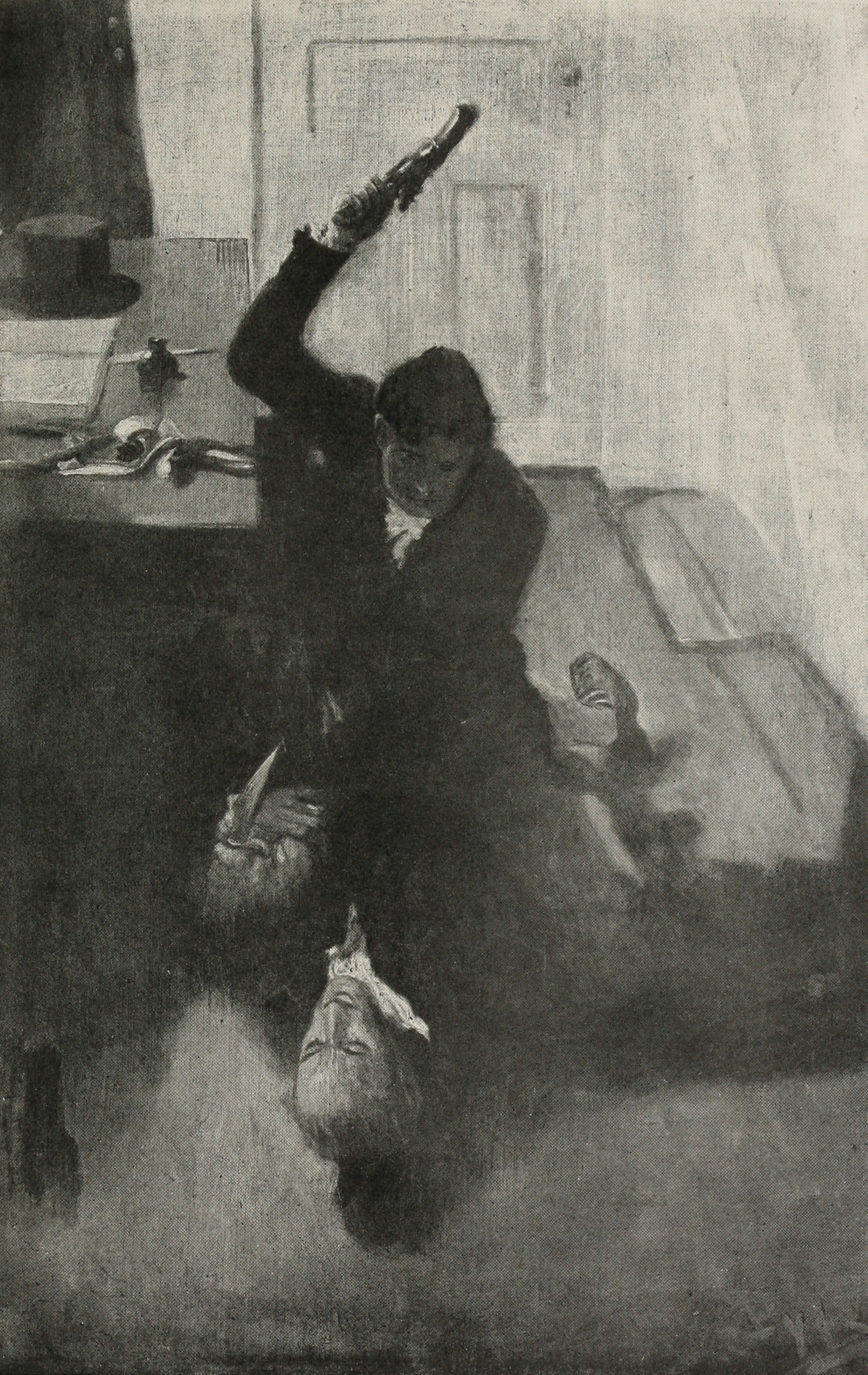 He Struck Once and Again at the Bald, Narrow Forehead Beneath Him: a straddles another, pistol-whipping him. This was originally published in Pyle, Howard (1897-12-18). "Captain Scarfield". The Northwestern Miller.